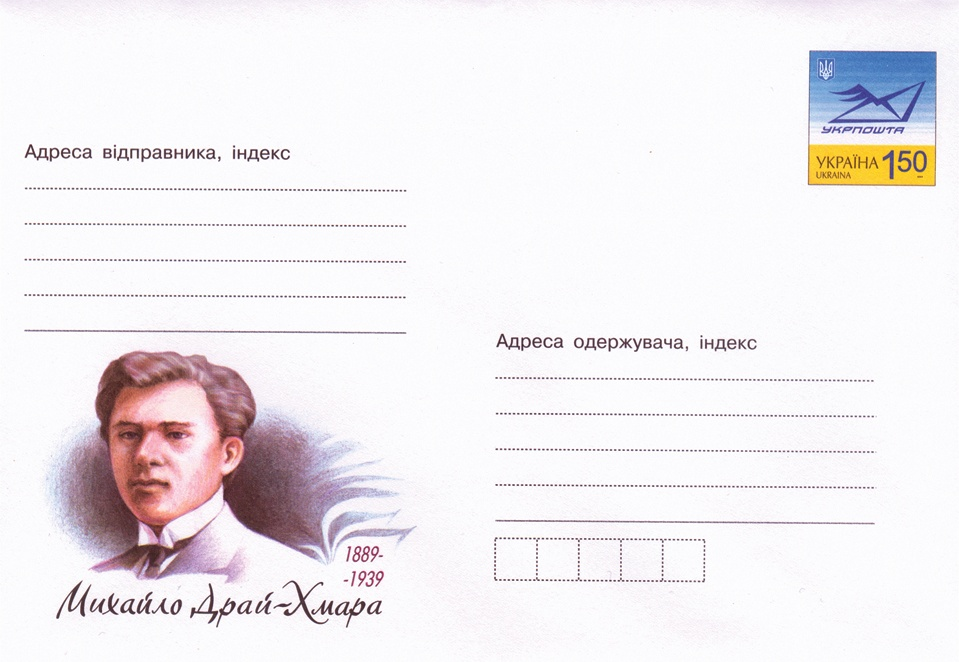 Ukrainian Post cover commemorating Ukrainian poet Mykhailo Drai-Khmara (1889-1939).